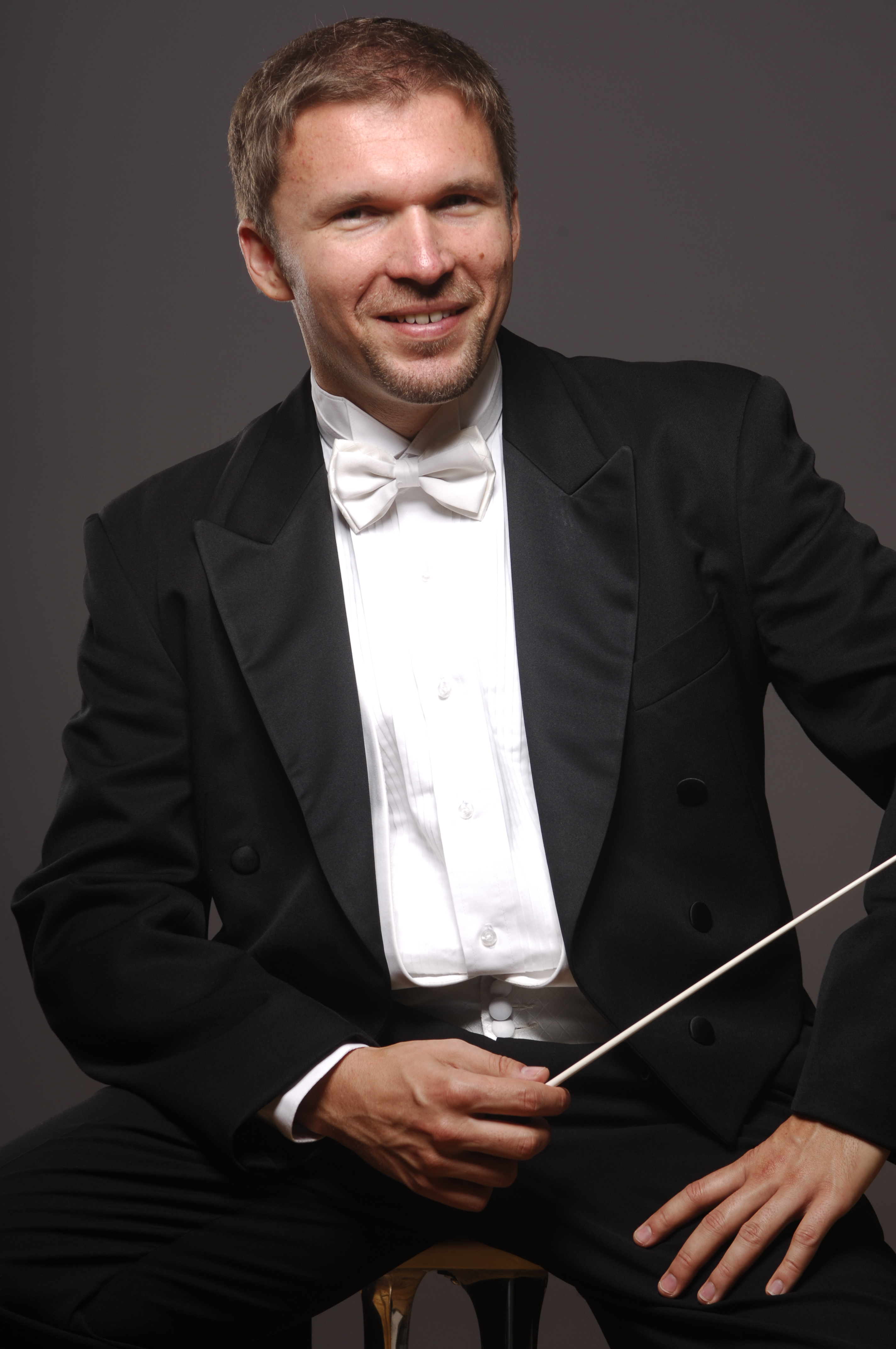 TG